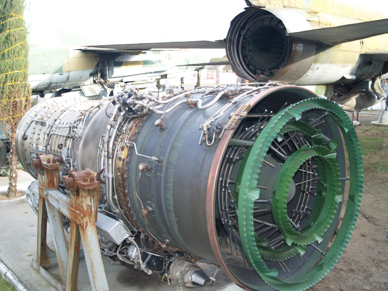 Tumansky R-11 turbojet engine in the Army History Museum and Park in Kecel.